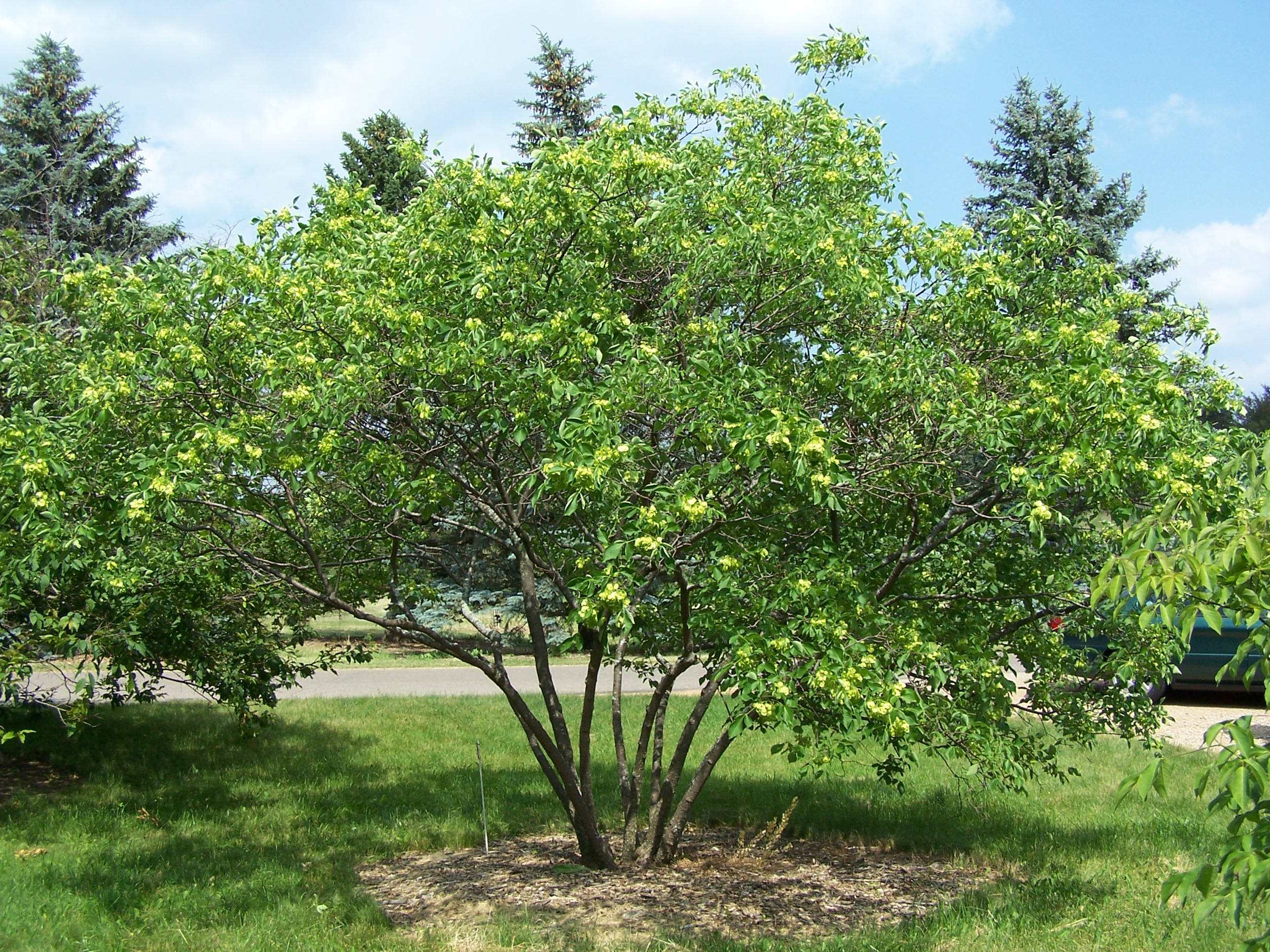 Ptelea trifoliata Common Hoptree at Minnesota Landscape Arboretum